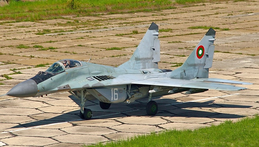 Bulgarian fighter MiG-29